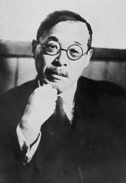 津田左右吉 / Japanese historian Sōkichi Tsuda (1873–1961)